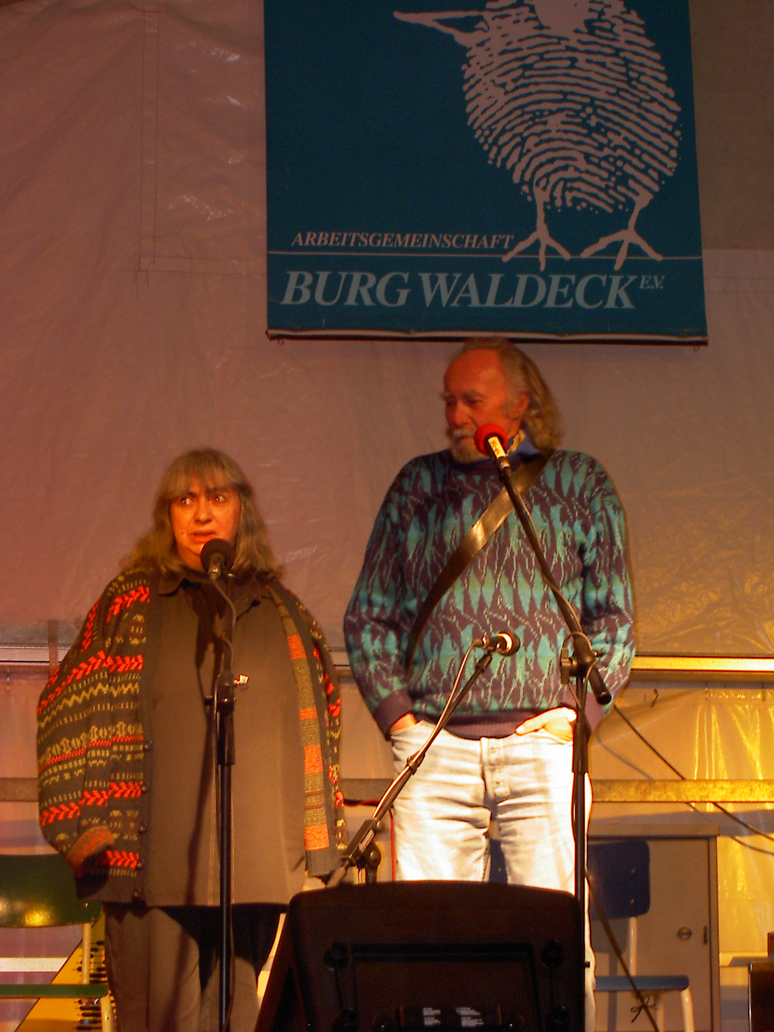 Colin Willie and Shirley Hart, singers/songwriters, 2004 at the "Burg Waldeck", Germany